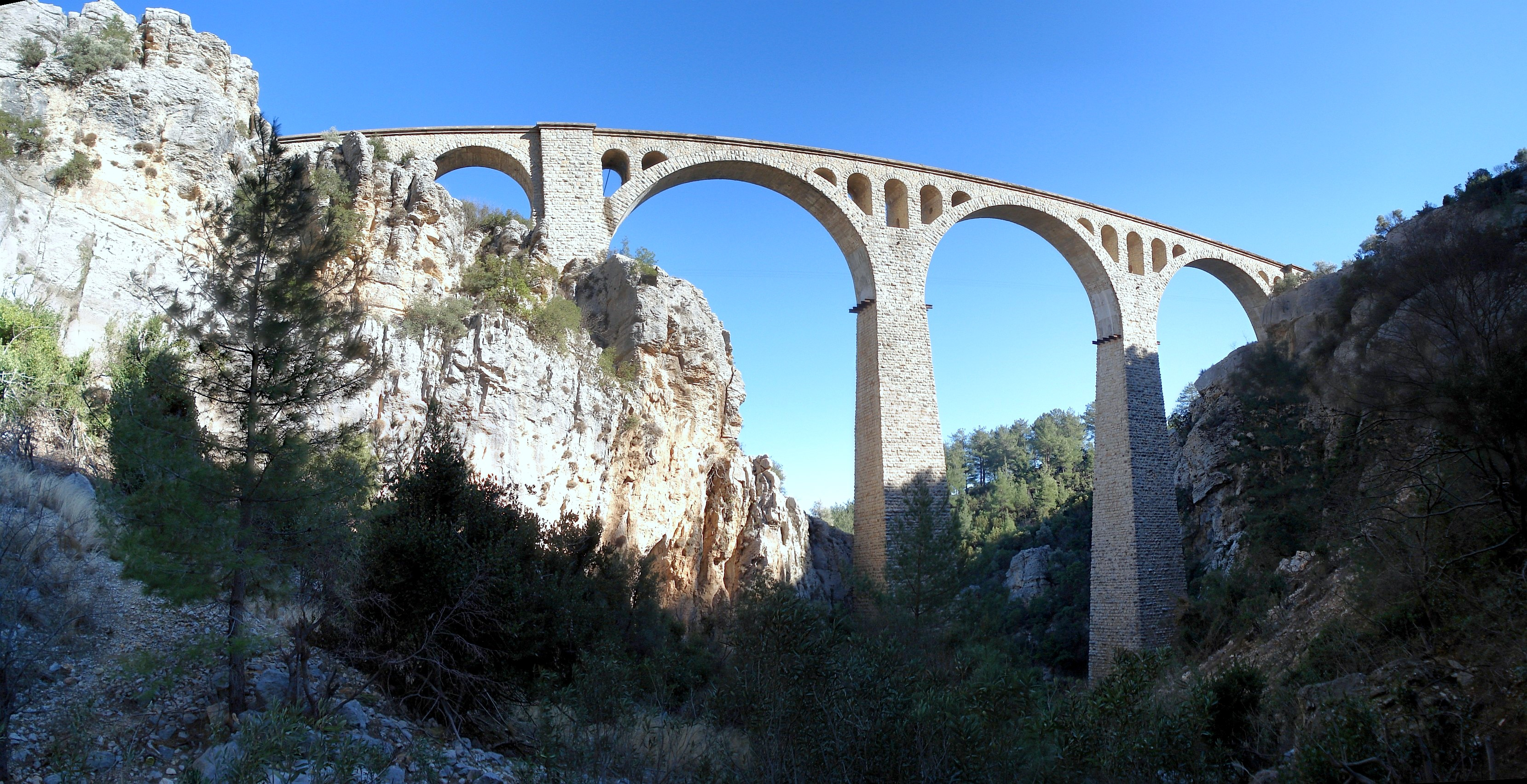 Varda Demiryolu Köprüsü; railway viaduct on Baghdad Railway in Taurus Mountains, Adana Province, Turkey